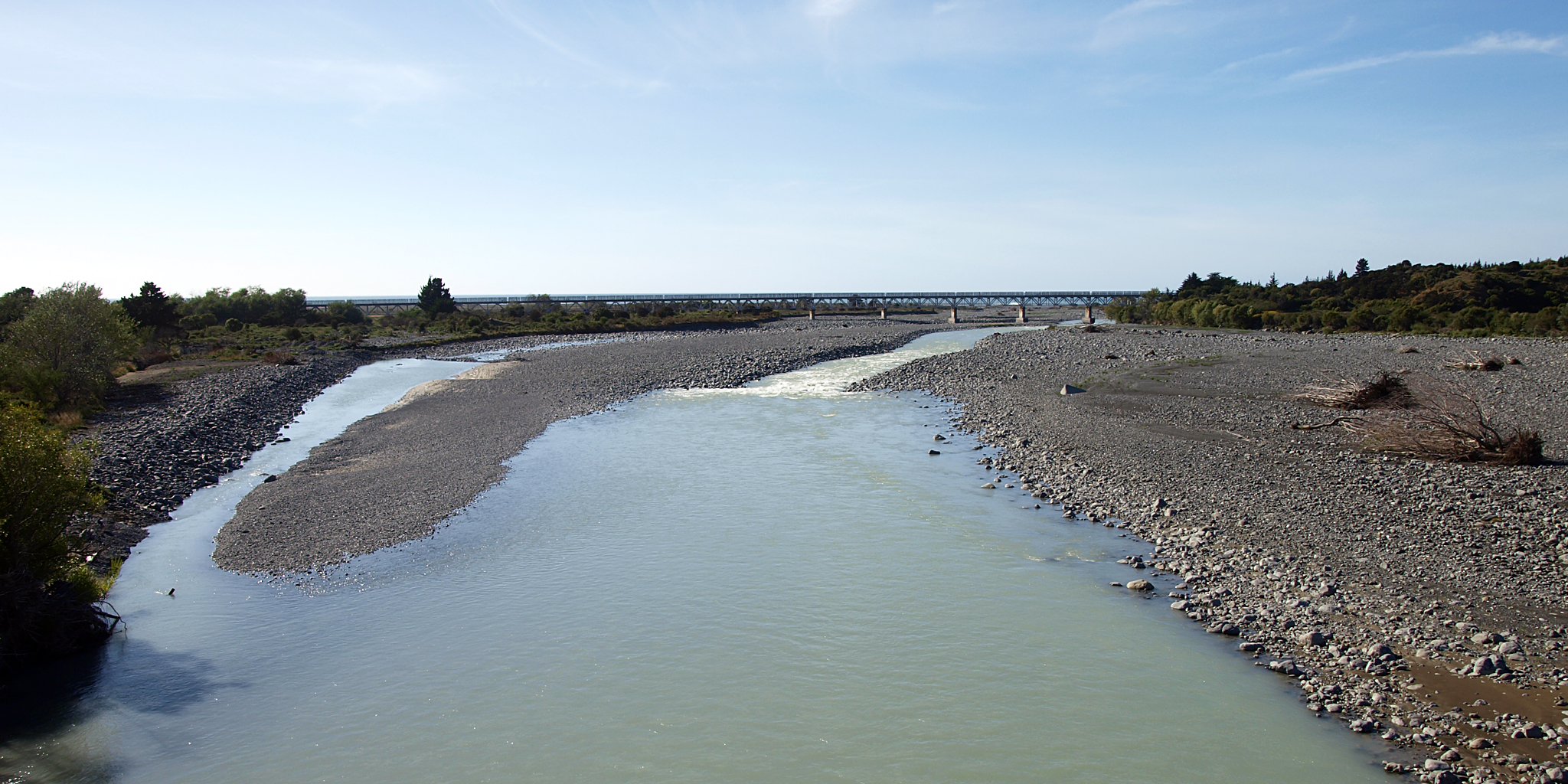 Clarence River, New Zealand